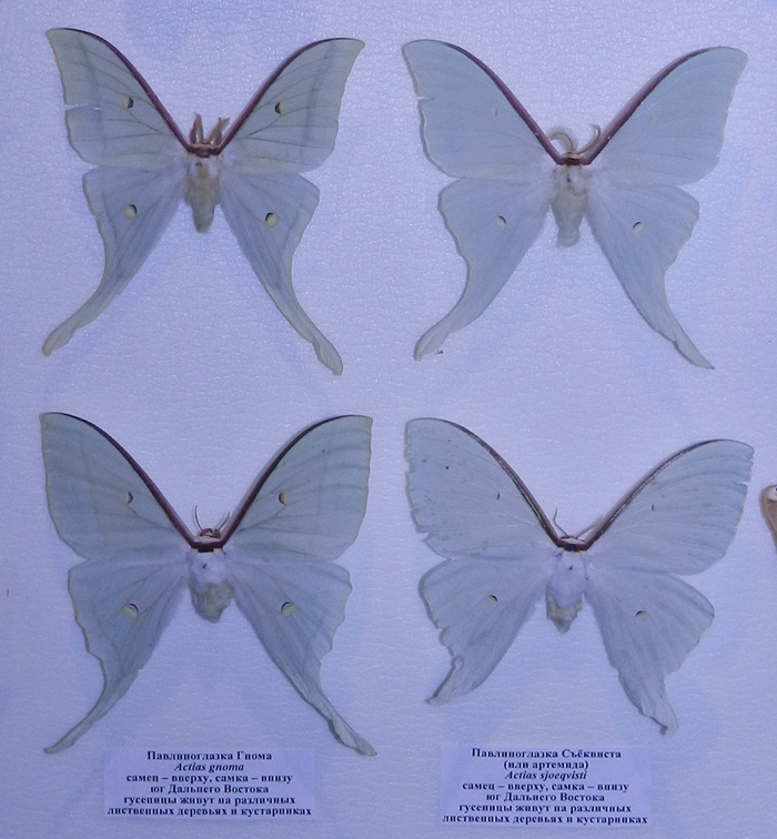 Two Actias species from Russia, males and females